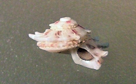 Arene cruentatus (Mühlfeld, 1824) , a sea snail from the family Areneidae; Panama